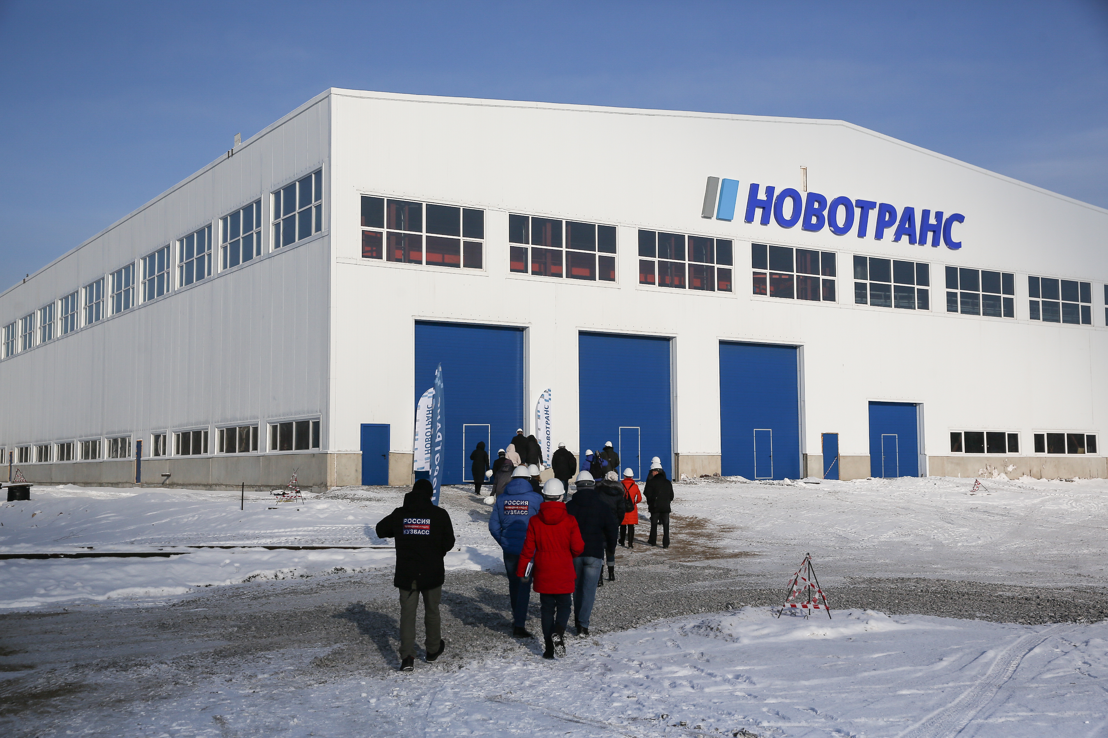 Novotrans KVRP